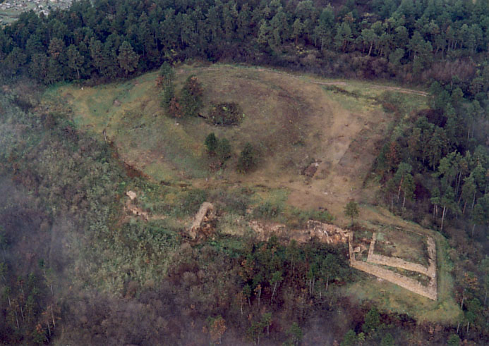 Castle - Szendrő - Hungary - Europe